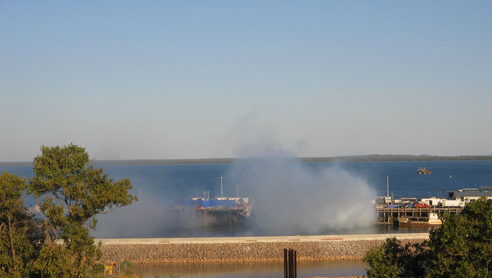 Filming of the movie Australia at Stokes Hill Wharf.